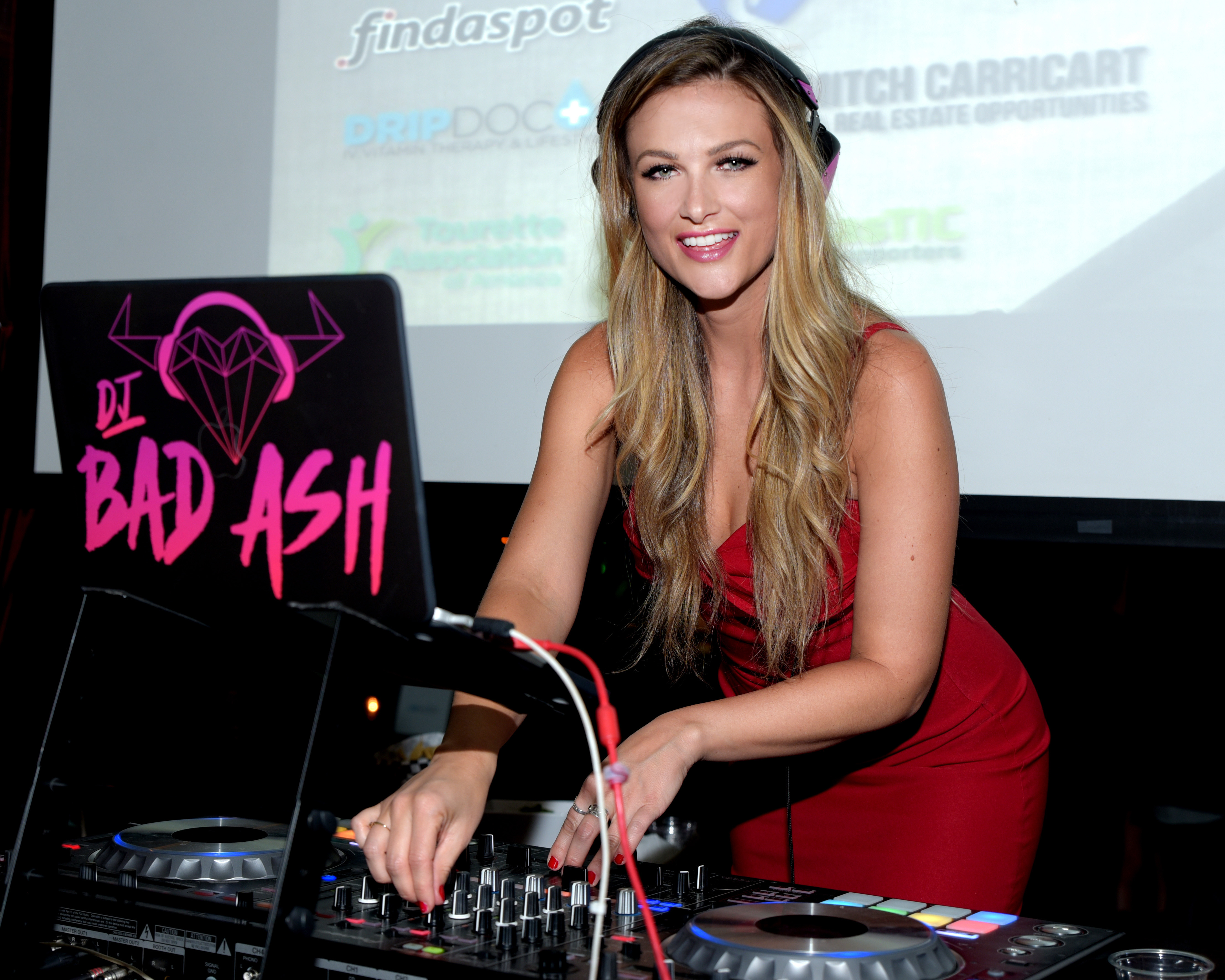 DJ Bad Ash (Ashlee Williss) performs in Hollywood California on June 23, 2018 - Photo by Glenn Francis of